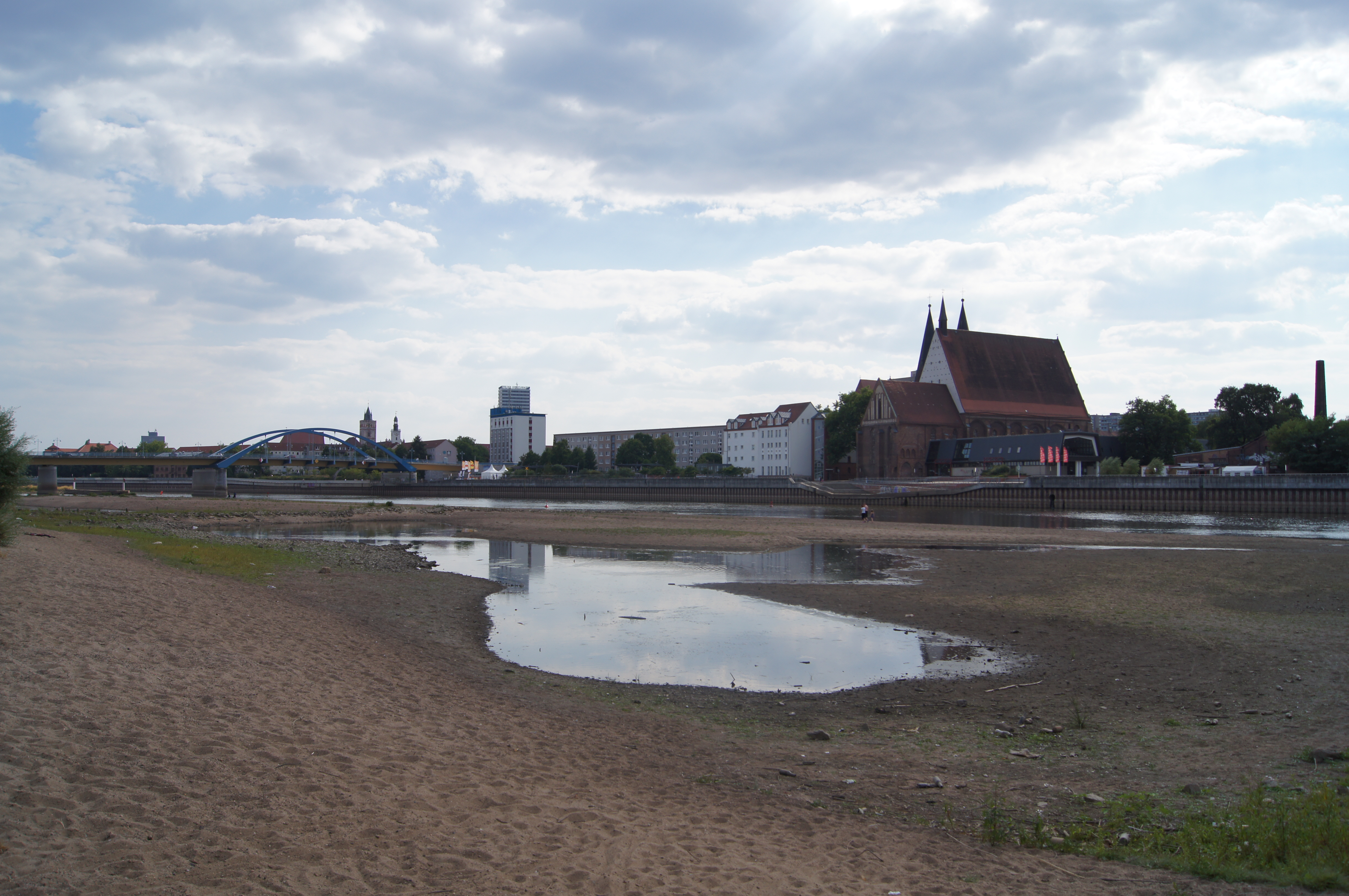 Oder River in Frankfurt (Oder) and Słubice.